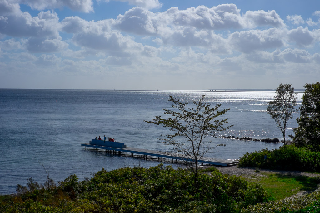 The lawn of the museum is positioned high over the ocean and the view from it is really spectacular.